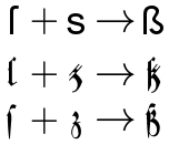 origins of the ß-ligature